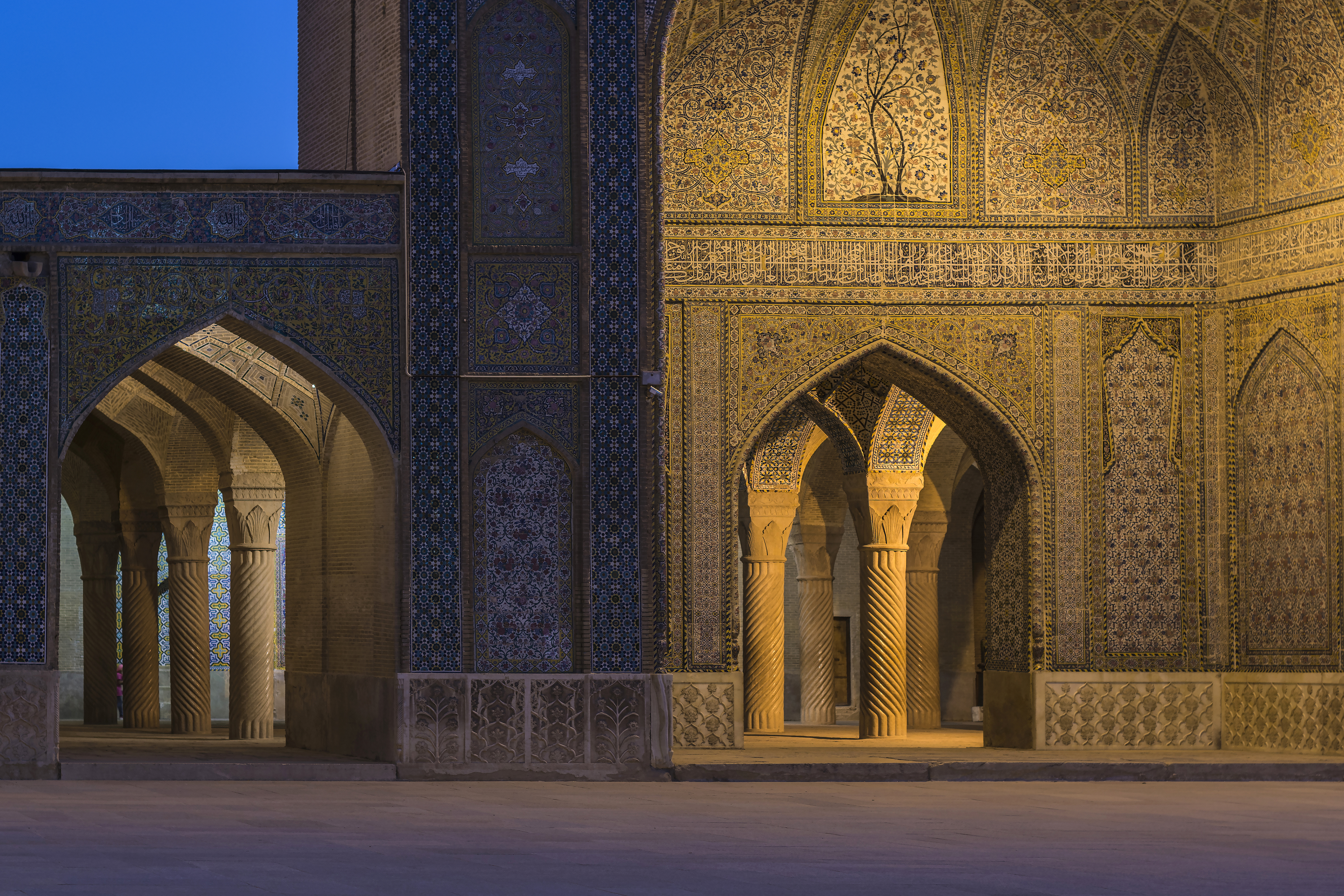 one of iwans of Vakil mosque. English translation of the Farsi description - "The Vakil Mosque or the Sultan Mosque is a historical mosque dating from the Zandian period in Shiraz, built by Karim Khan Zand. Located to the west of the Lawyer Market and at the far end of the swordsmanship, the mosque has a two-porch design and has two south and east sheds.South Shabestan with monolithic and spiral stone columns is one of the features of Iranian architecture and is one of the most spectacular areas of this mosque which has 5 monolithic stone pillars. It has an area of ​​about 3,000 square meters and is a 14-storey monolithic staircase of beautiful beauties. It is said that by the order of Karim Khan this stone was brought from Maragheh to Shiraz. On the north side of the mosque is a tall and important arch known as the Pearl Arch. Around this arch is a large pen and the third line of one of the Qur'anic suras written in crescent form. According to the traditional architecture of this border and canvas, the mosque is placed in a social complex and has created a beautiful harmony between religion and the world. The tiling of the apron and the north and south porch is also very beautiful and of seven colors and mosaic. The Lawyer's Mosque in Isfahan Pirlotti's Travelogue is as follows: "Today I was fortunate enough to enter the Karim Khan Mosque without a doubt. If I stay here for a while, I will enter all the places where I am completely banned. The city is very gentle and kind to me. The lines and motifs of the mosque architecture are simple and beautiful."